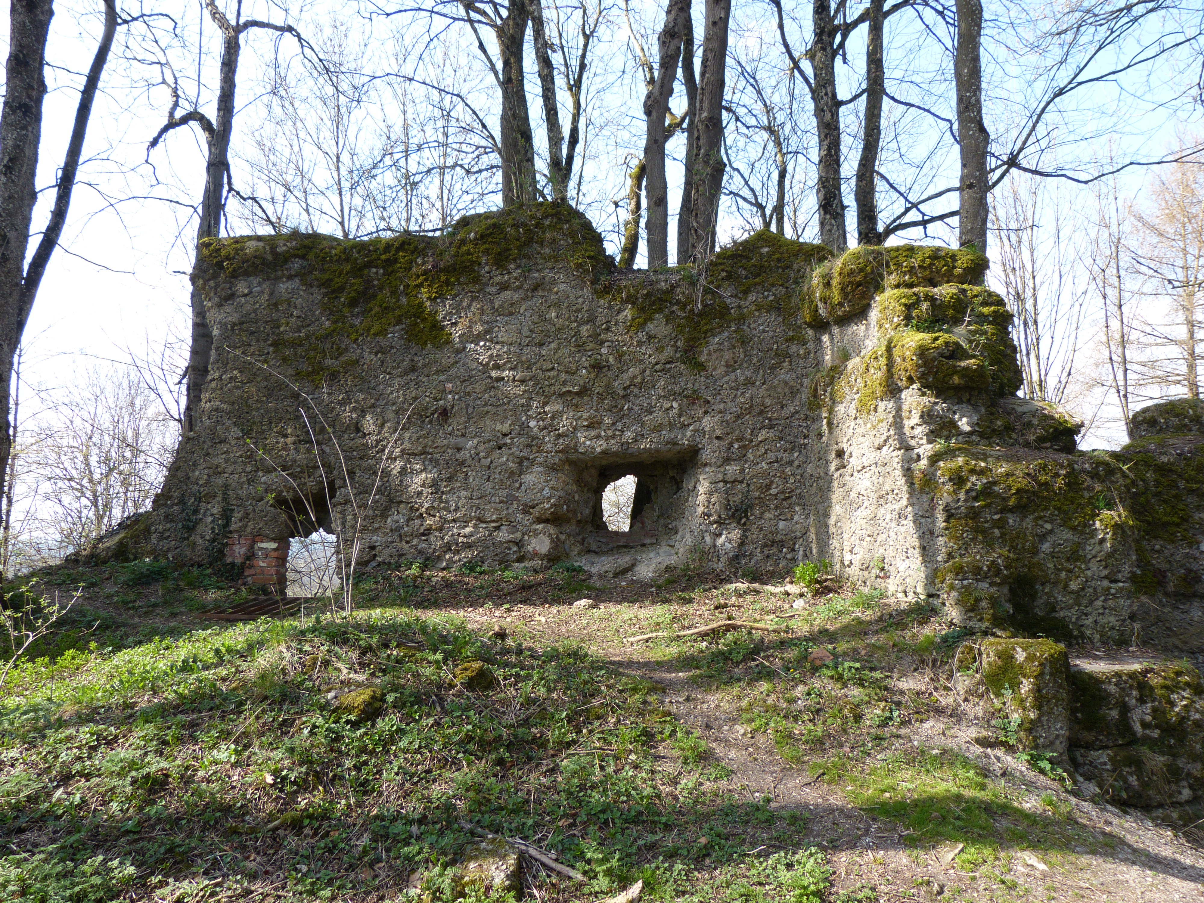 Ruins of castle Rothenstein, Landkreis Unterallgäu, Bavaria